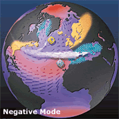 The negative phase of the North Atlantic Oscillation